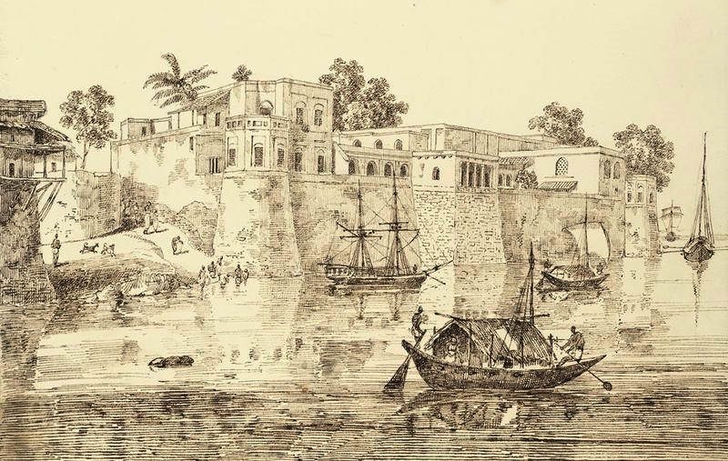 1824 pencil and ink drawing showing the old French factory at Patna on the Ganges. The Dutch, French, British and Danish East India companies all had factories at Patna, the center of opium and saltpetre trade in northern India. France was not able to take back its factory at Patna when it recovered its Indian settlements (Pondicherry, Chandernagore, etc.) in 1816 following the Treaty of Paris of 1814. Cropped from the original drawing by Sir Charles D'Oyly (1781-1845) dated 1824.